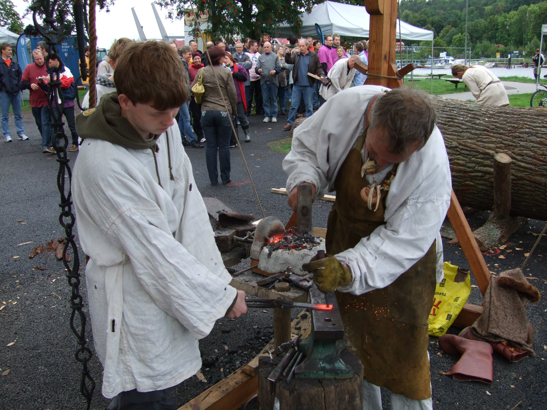 Building a new Osebergship in Tønsberg 2011